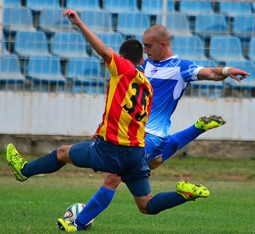 Stanimir Dimirtov plays against PFC Levski Sofia